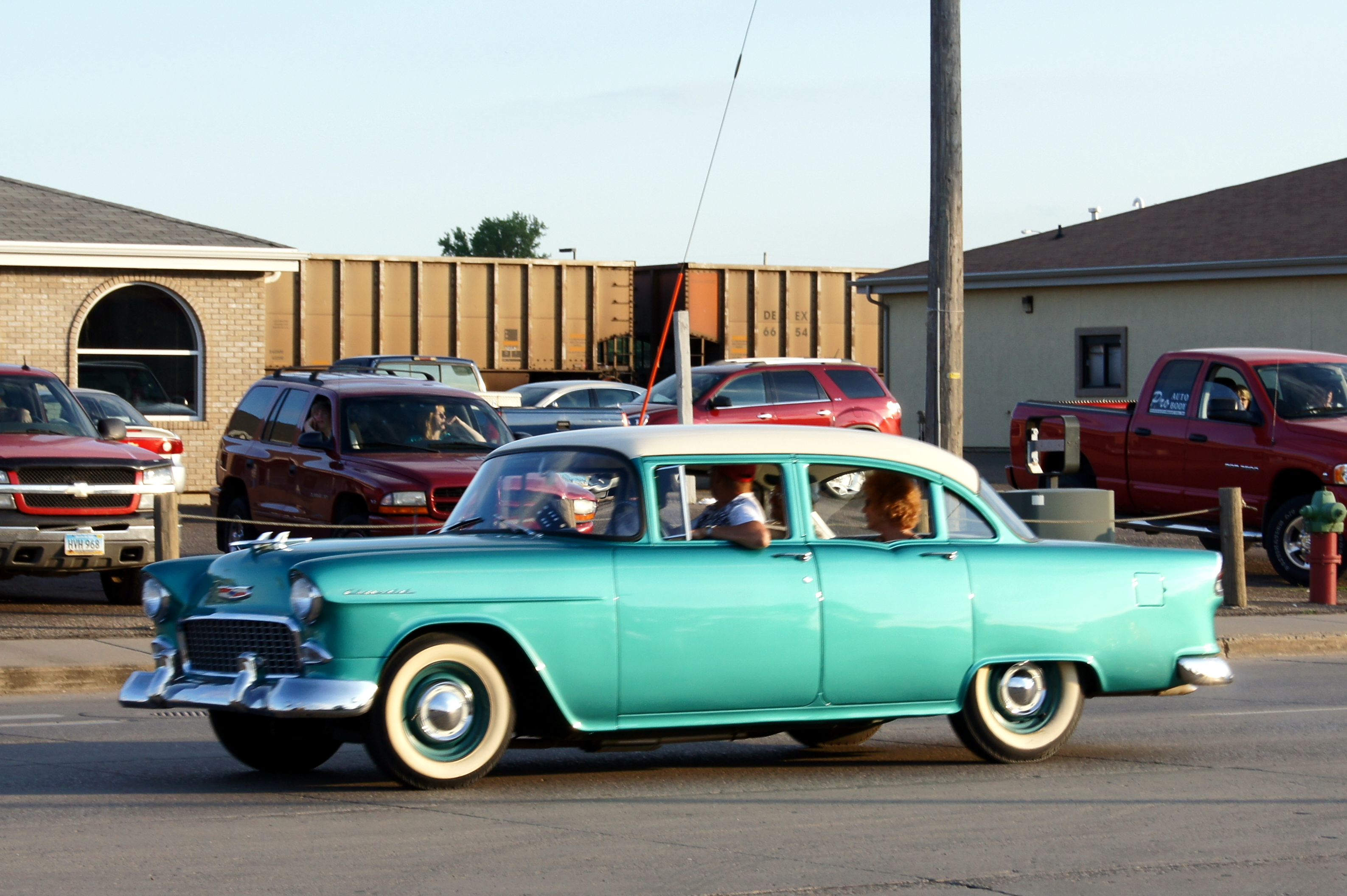 Buggies-N-Blues June 2012 Mandan North Dakota